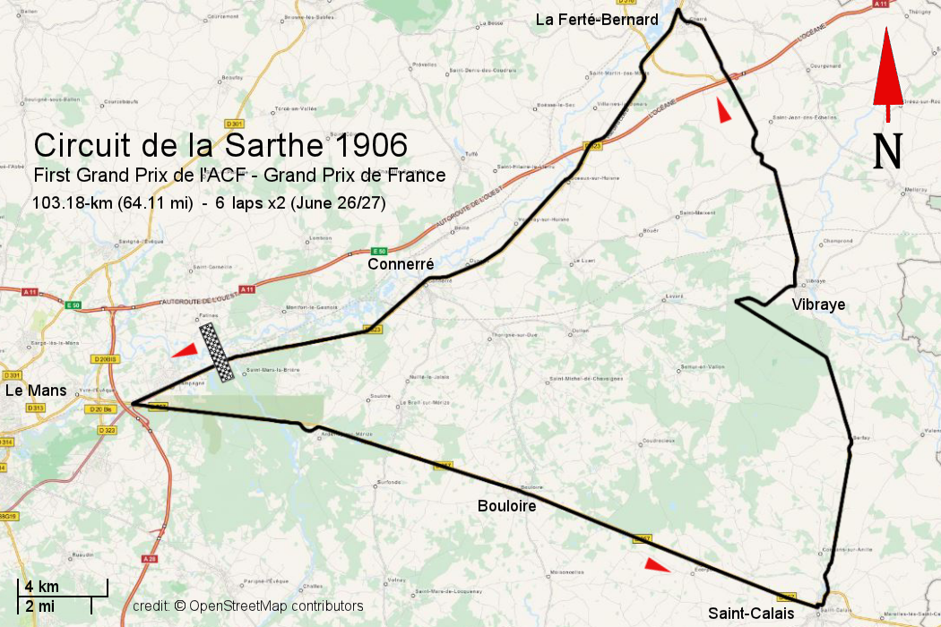 Circuit de la Sarthe 1906 (Open Street Map)